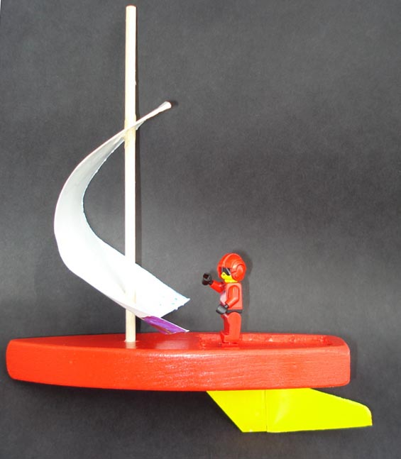 Raingutter Regatta boat with Lego character